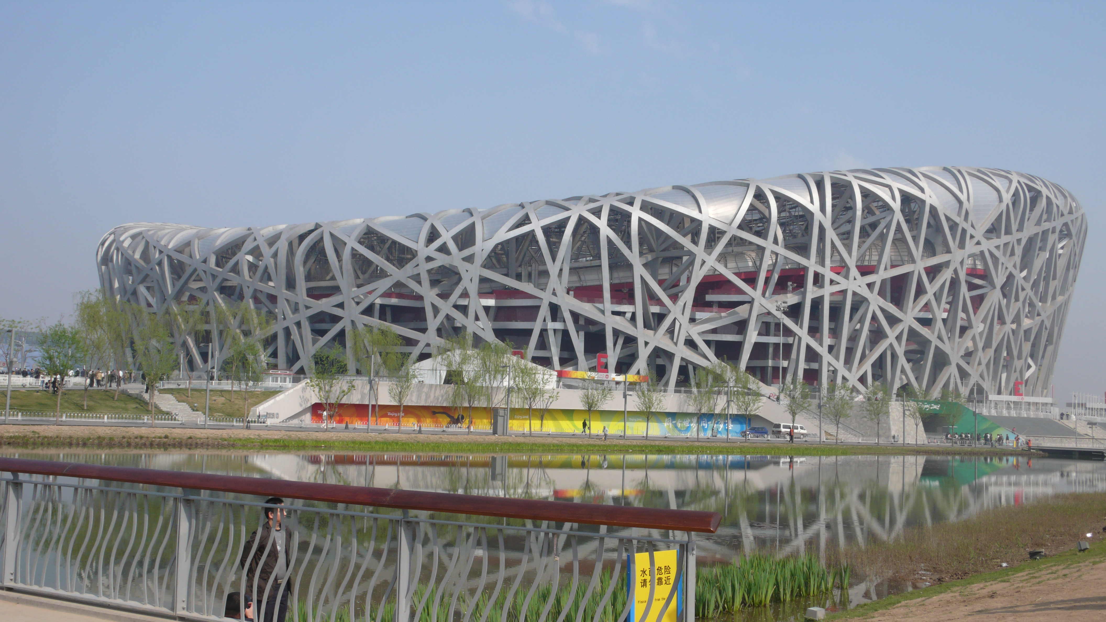 Bird Nest in Beijing. This stadium has been built for the 2008 Olympic Games